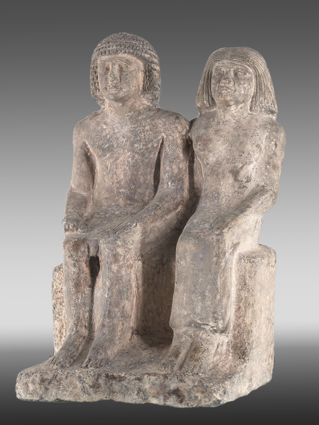 Funerary statue of an anonymous couple (probably royal servants). Old Kingdom of Egypt, 4th or 5th Dynasty, c. 2575-2325 BCE. Limestone with traces of polychromy. H. 36.5; width 2 "; thickness 19 cm. Musée des Beaux-Arts de Lyon.